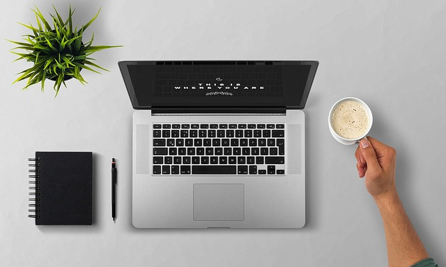 laptop on a desk form Pixabay